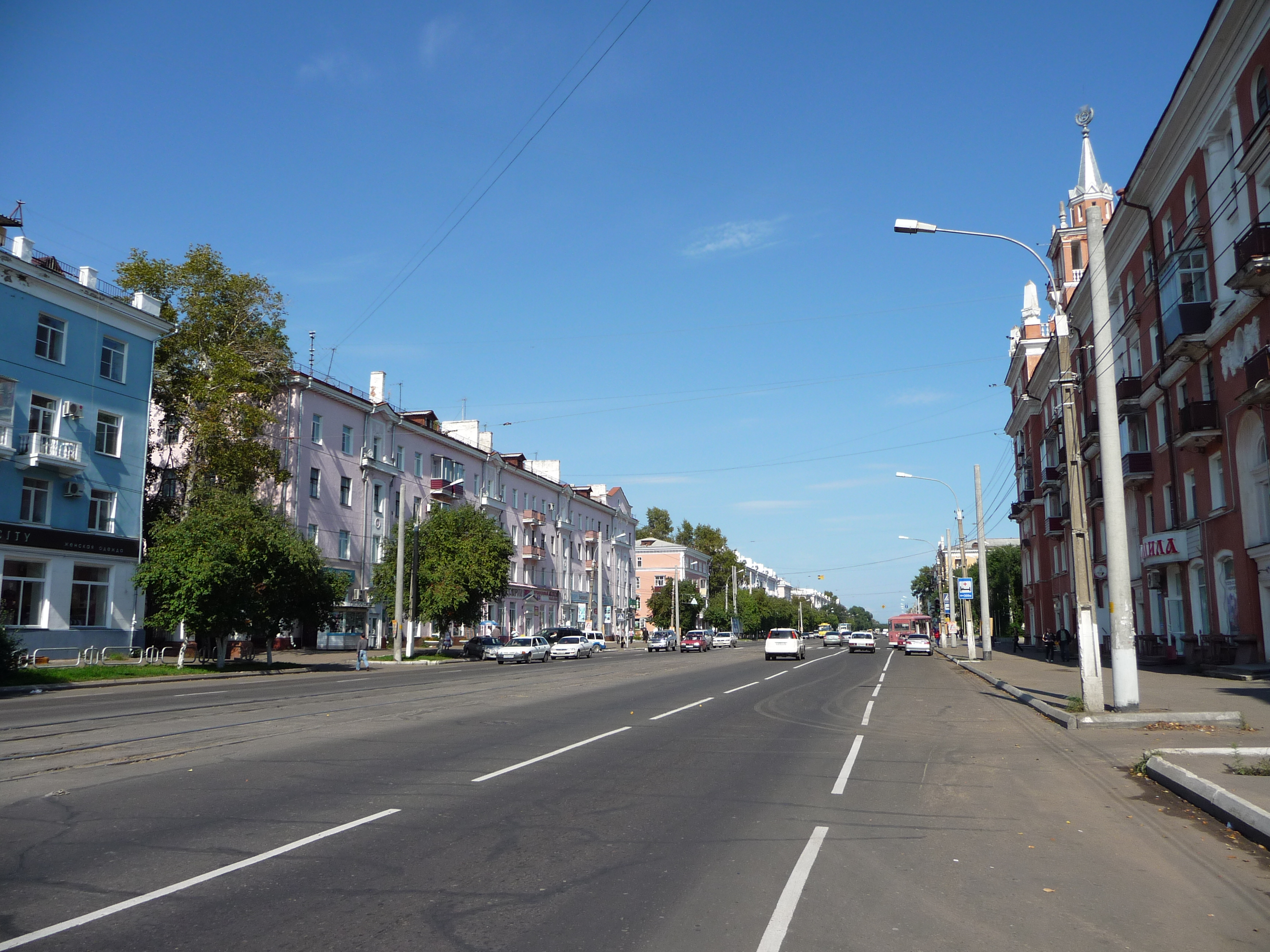 The V. I. Lenin Prospekt in Komsomolsk-on-Amur (Khabarovsk Krai, Russia).